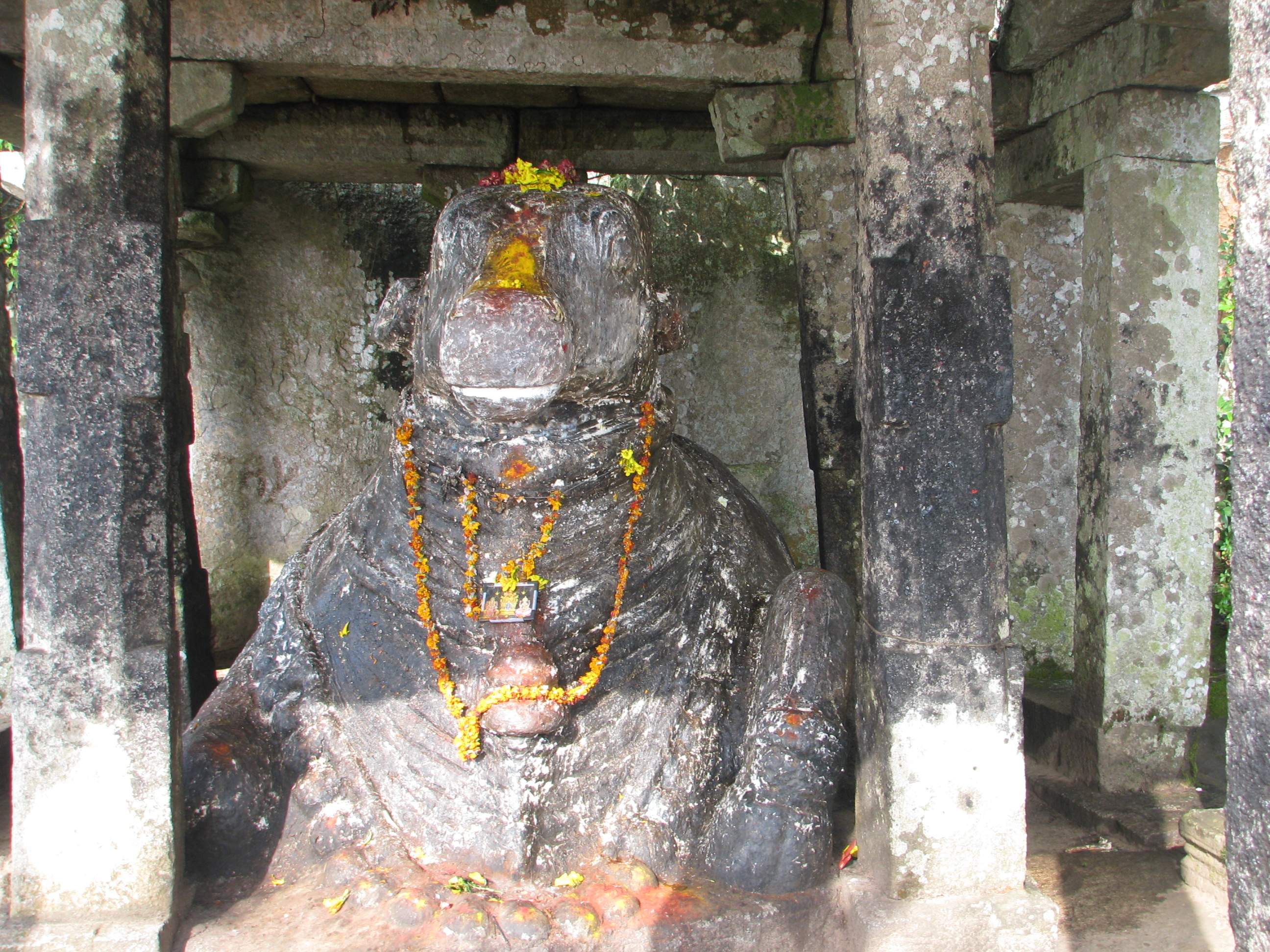 Nandi at Nandi Hills